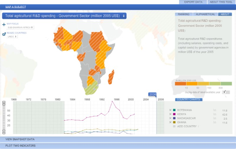 Screenshot from the data tool on the ASTI website